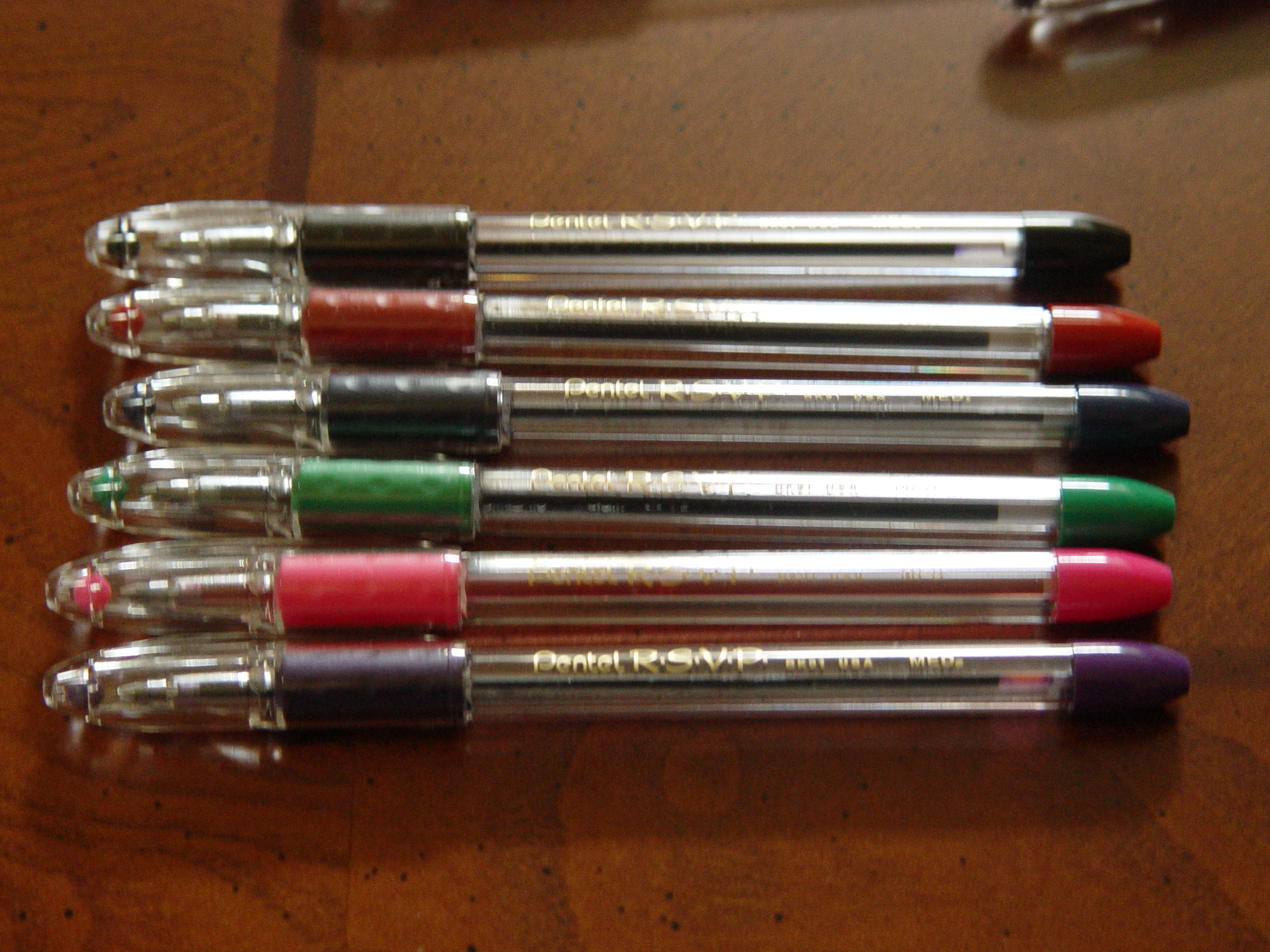 Six Pentel R.S.V.P. ballpoint pens. Bigtop 20:34, 6 December 2006 (UTC)